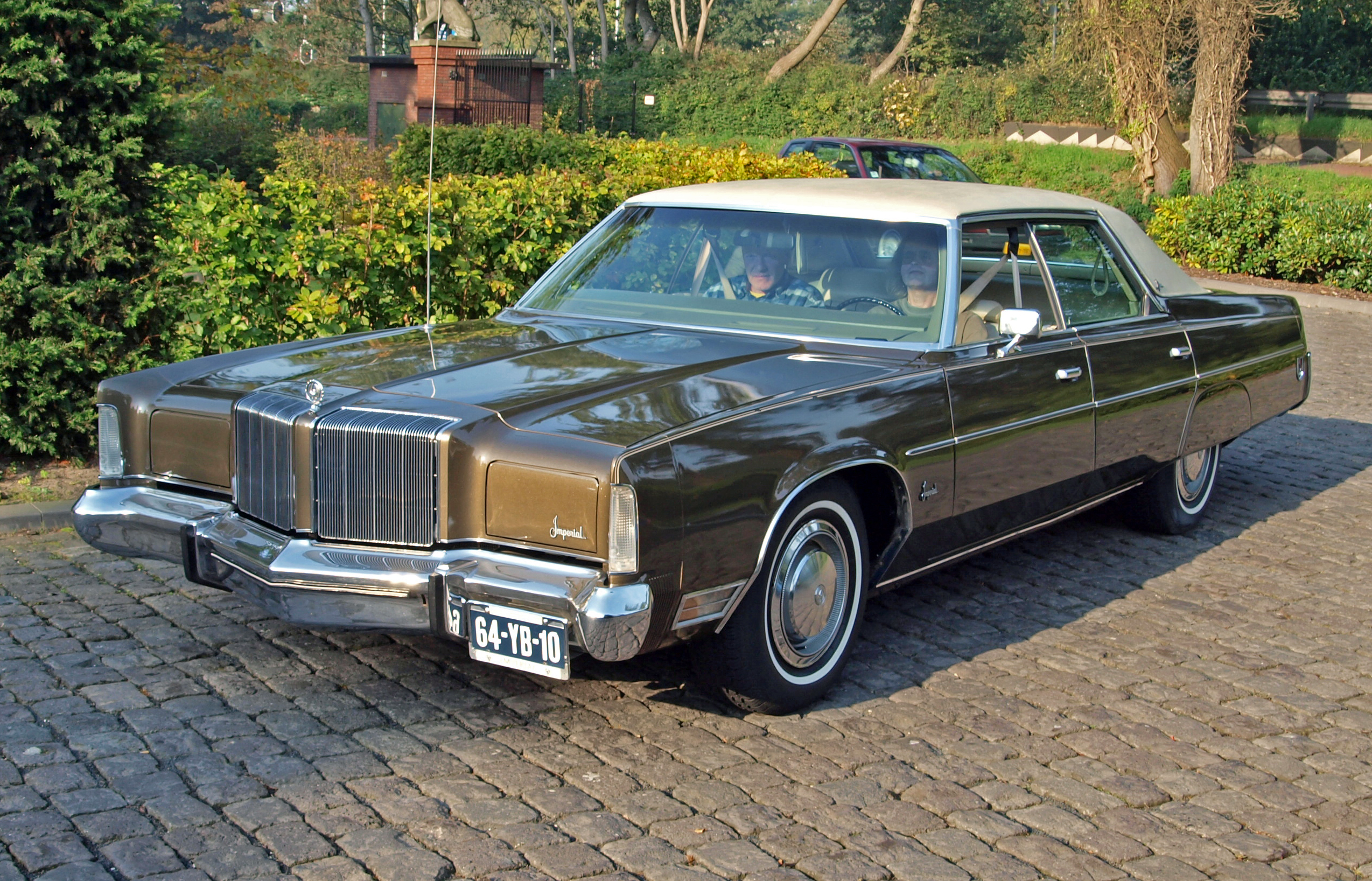 Photographed at the premmesis of the Louwman museum, The Hague, The Netherlands. OLYMPUS DIGITAL CAMERA